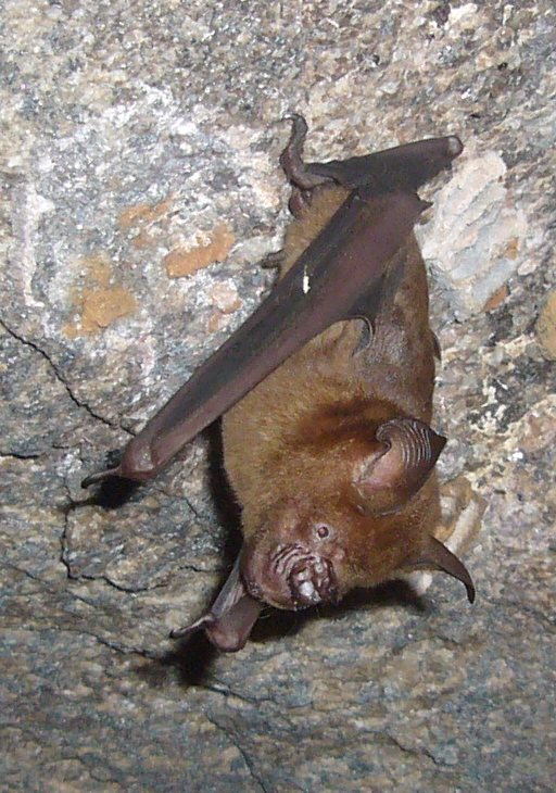 Hipposideros lankadiva (Kelaart's leaf-nosed bat) in a cave in Sri Lanka.